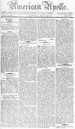 From: American Apollo (Boston: Belknap & Hall) Further information: American Antiquarian Society. Catalog.